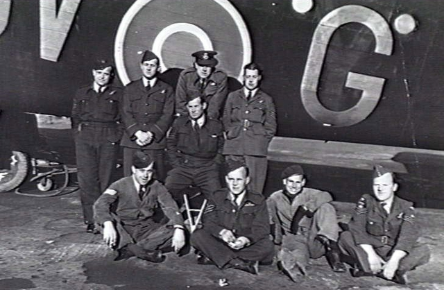 AWM caption : BREIGHTON, ENGLAND. POST 1942-08. A HANDLEY-PAGE HALIFAX BOMBER AIRCRAFT (CODED UV-G) FROM 460 SQUADRON, ROYAL AUSTRALIAN AIR FORCE, WITH CREW. FLIGHT SERGEANT J.A. SAINT SMITH IS SEATED FRONT, SECOND FROM LEFT.